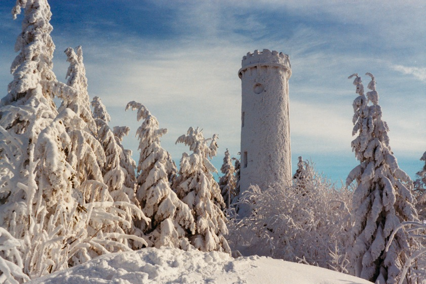 The Sternsteinwarte observation tower on top of the Sternstein, covered in snow. Recorded 2011